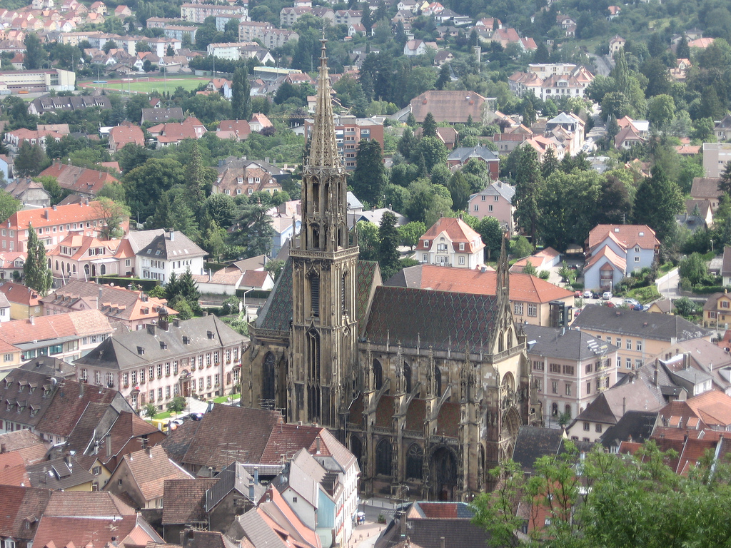 See where this picture was taken. ?